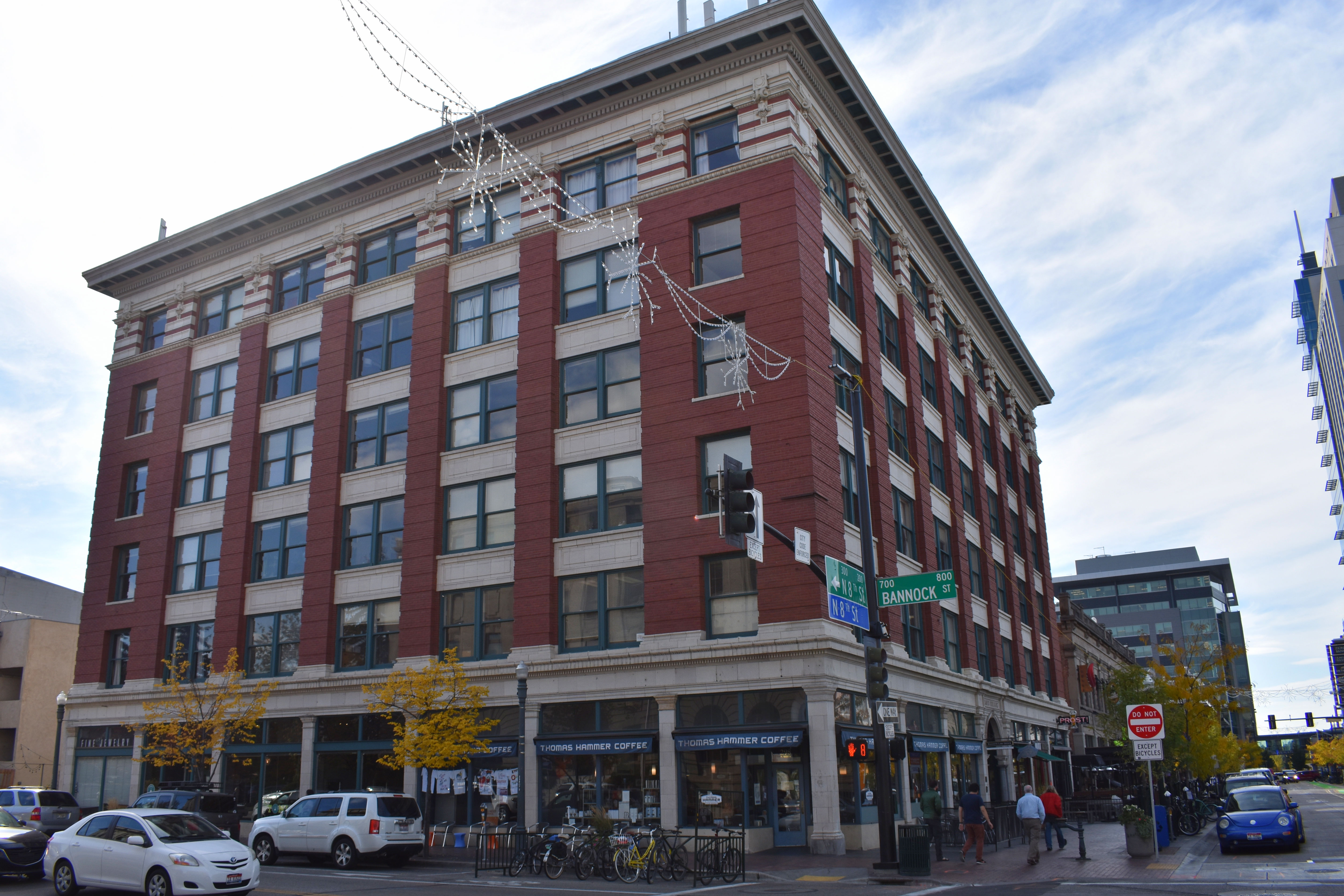 The Idaho Building (1910) in Boise, Idaho, was designed by Tourtellotte & Hummel for Walter E. Pierce. The six-story, Second Renaissance Revival style building features banded brick pilasters that contribute to a sense of verticality. The Idaho Building is similar to the nearby Empire Building (1910).